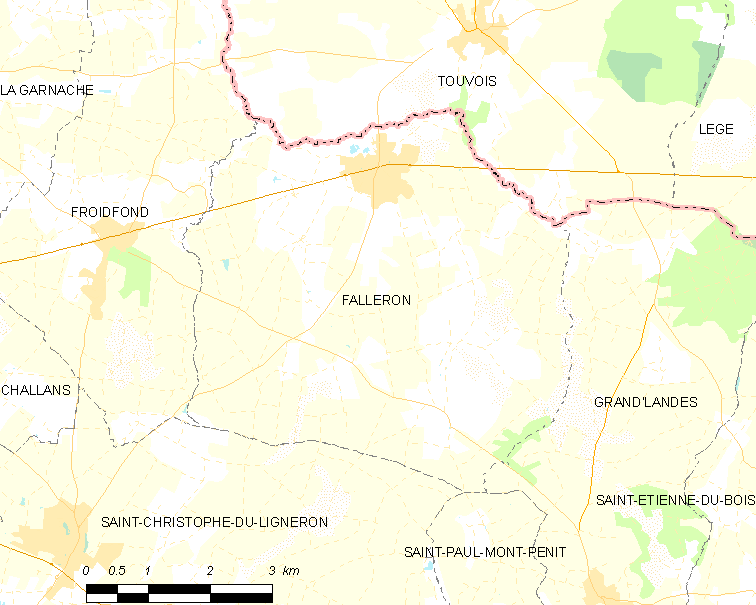 Map of French municipality Falleron